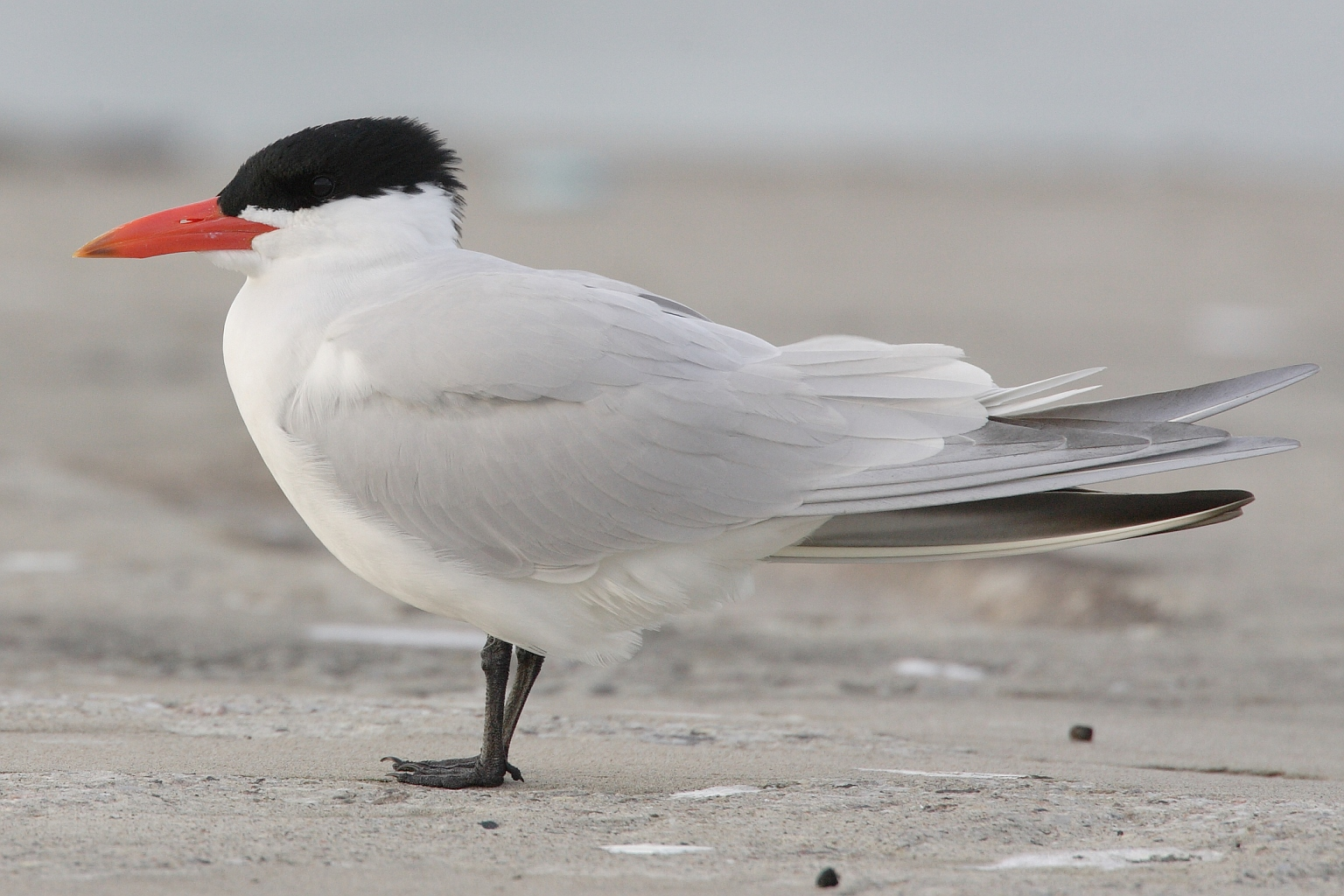 Caspian Tern. Cobourg, Ontario, Canada.